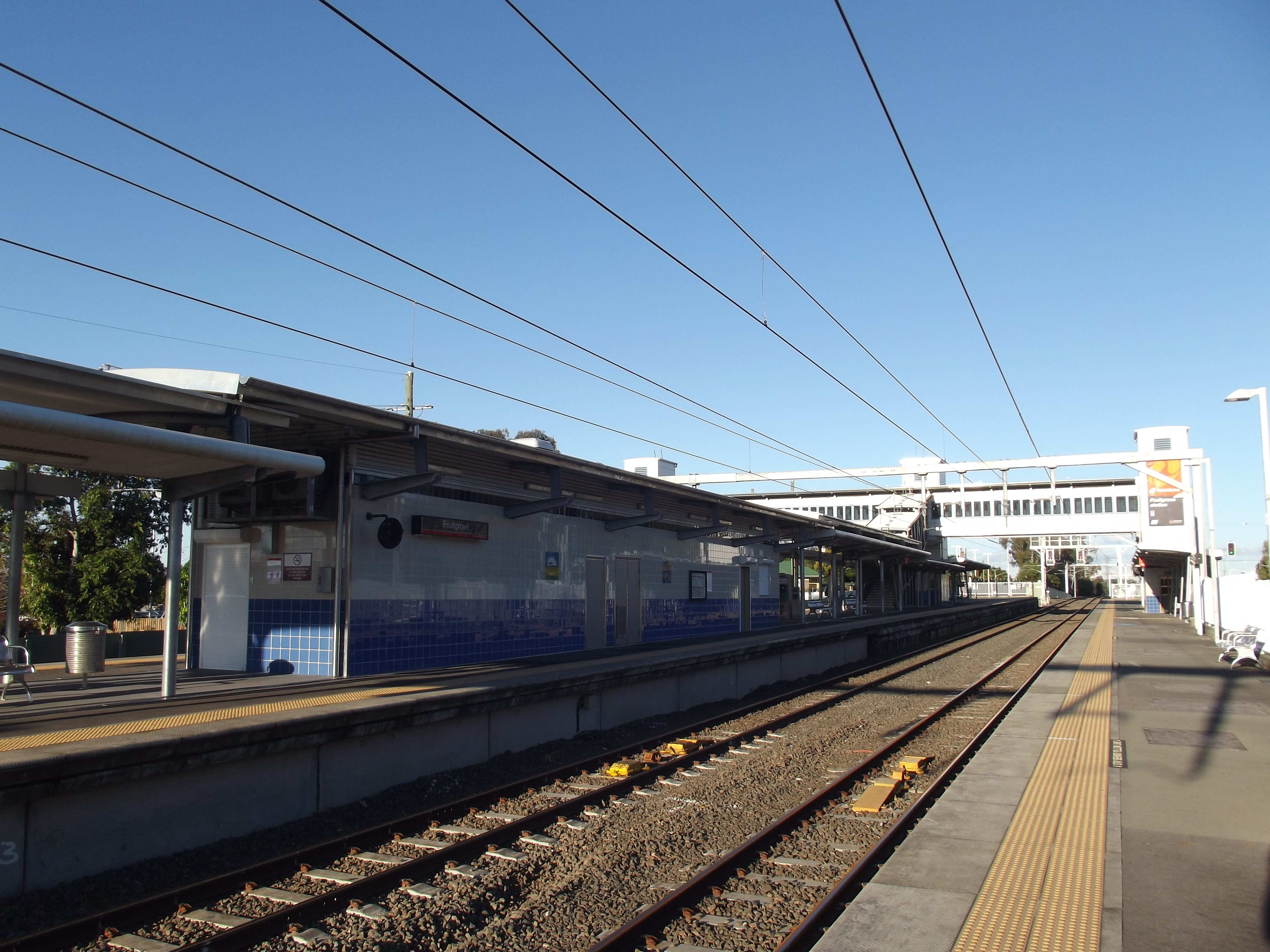 A photo of the Fruitgrove railway station, operated by TransLink, located in Brisbane, Queensland.